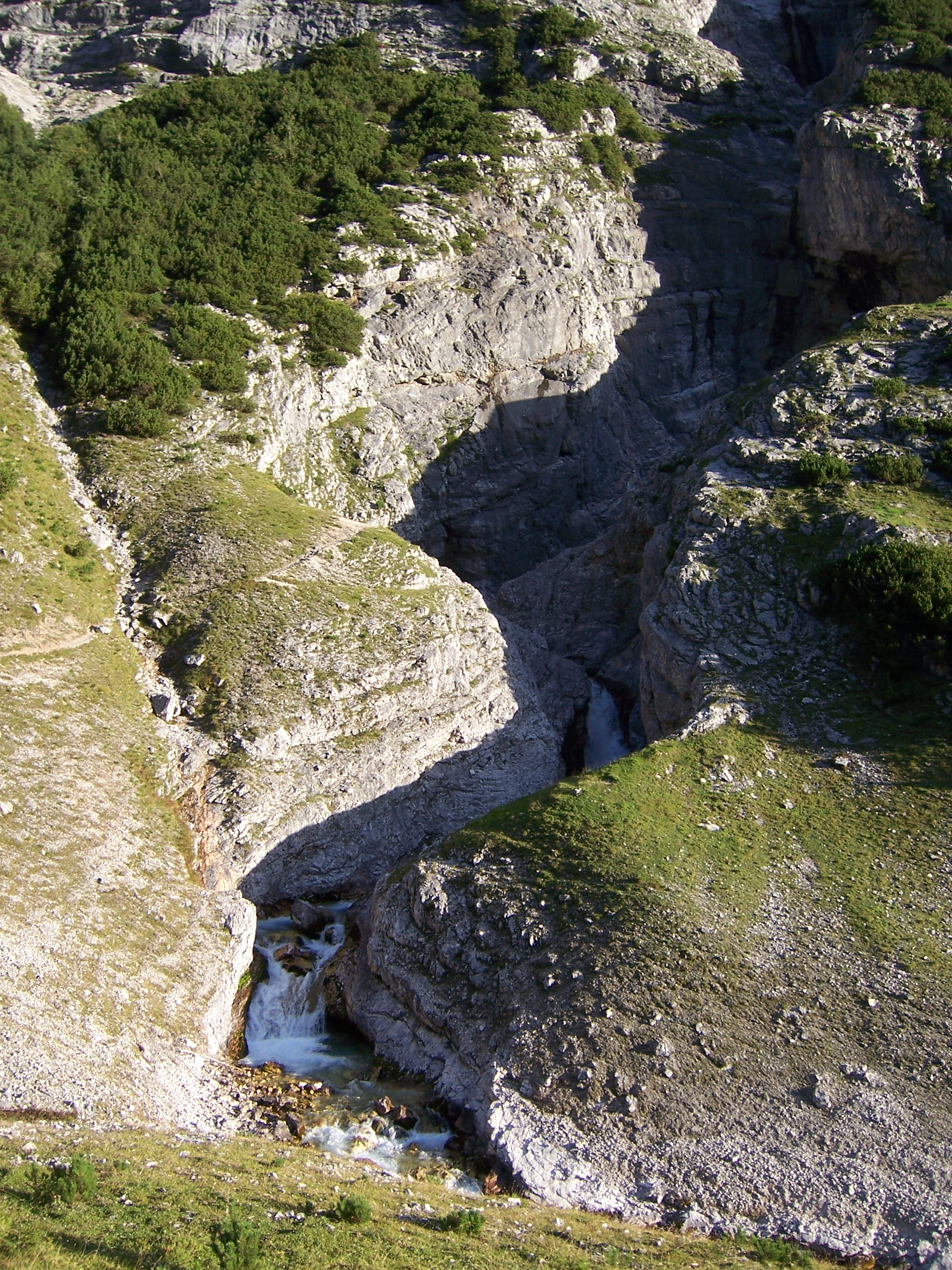 Spring of the river Partnach, called Partnachursprung.